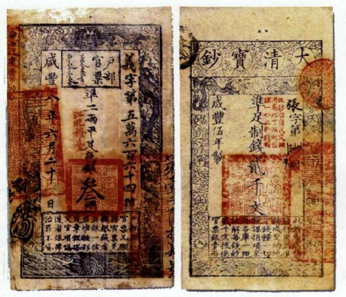 A Qing Dynasty (Xianfeng Era, 1851-60) banknote (paper-based, printing)